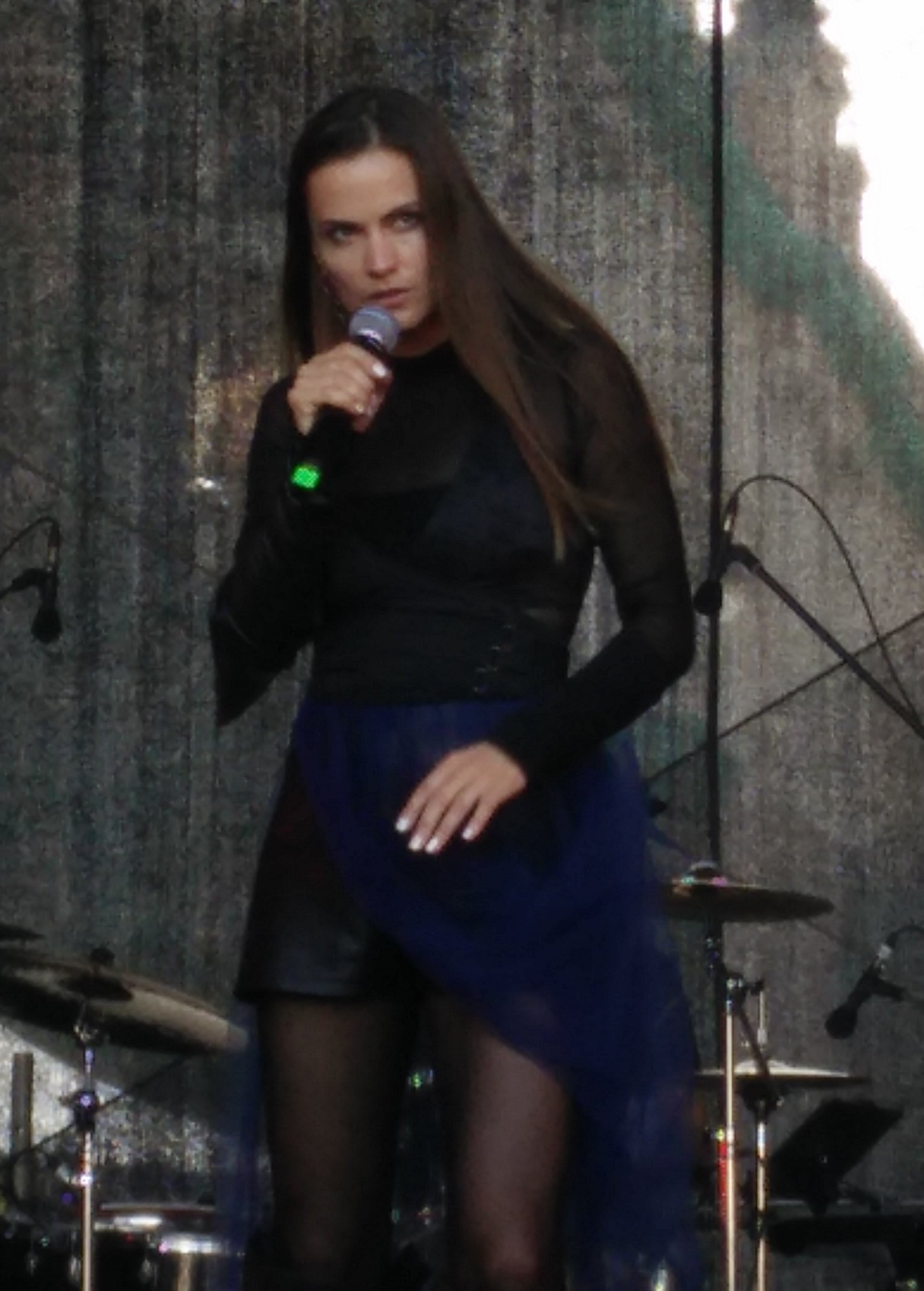 Jurga performing at Sostinės dienos in Vilnius on August 31, 2019Lietuvių: Jurga sostinės dienose Vilniuje, 2019-08-31